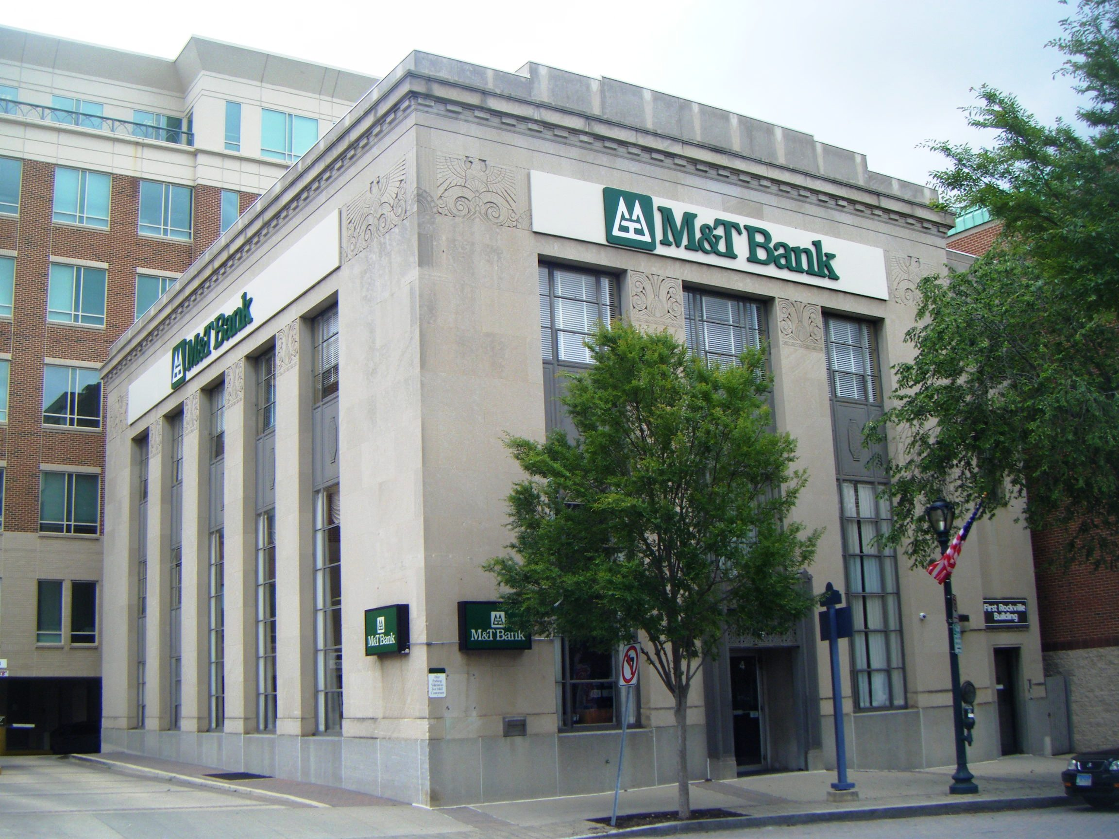 The old Farmer's Bank and Trust Company building on West Montgomery Avenue in Rockville, Maryland. Built in 1931, it is noted for its Art Deco style